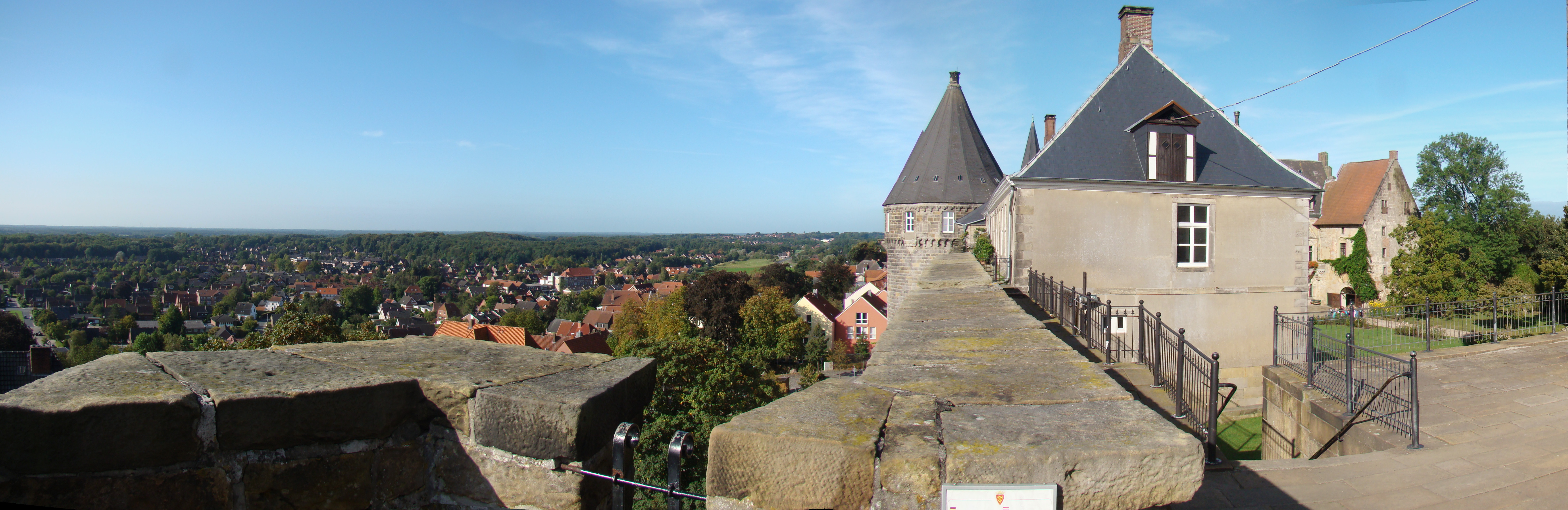 panorama view from the castle Wall, Burg Bentheim, Bad Bentheim (Germany)